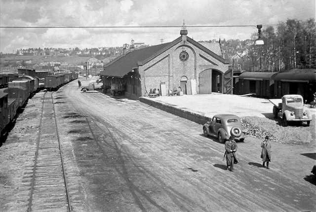 Grefsen Station on the Gjøvik Line in Oslo, Norway.